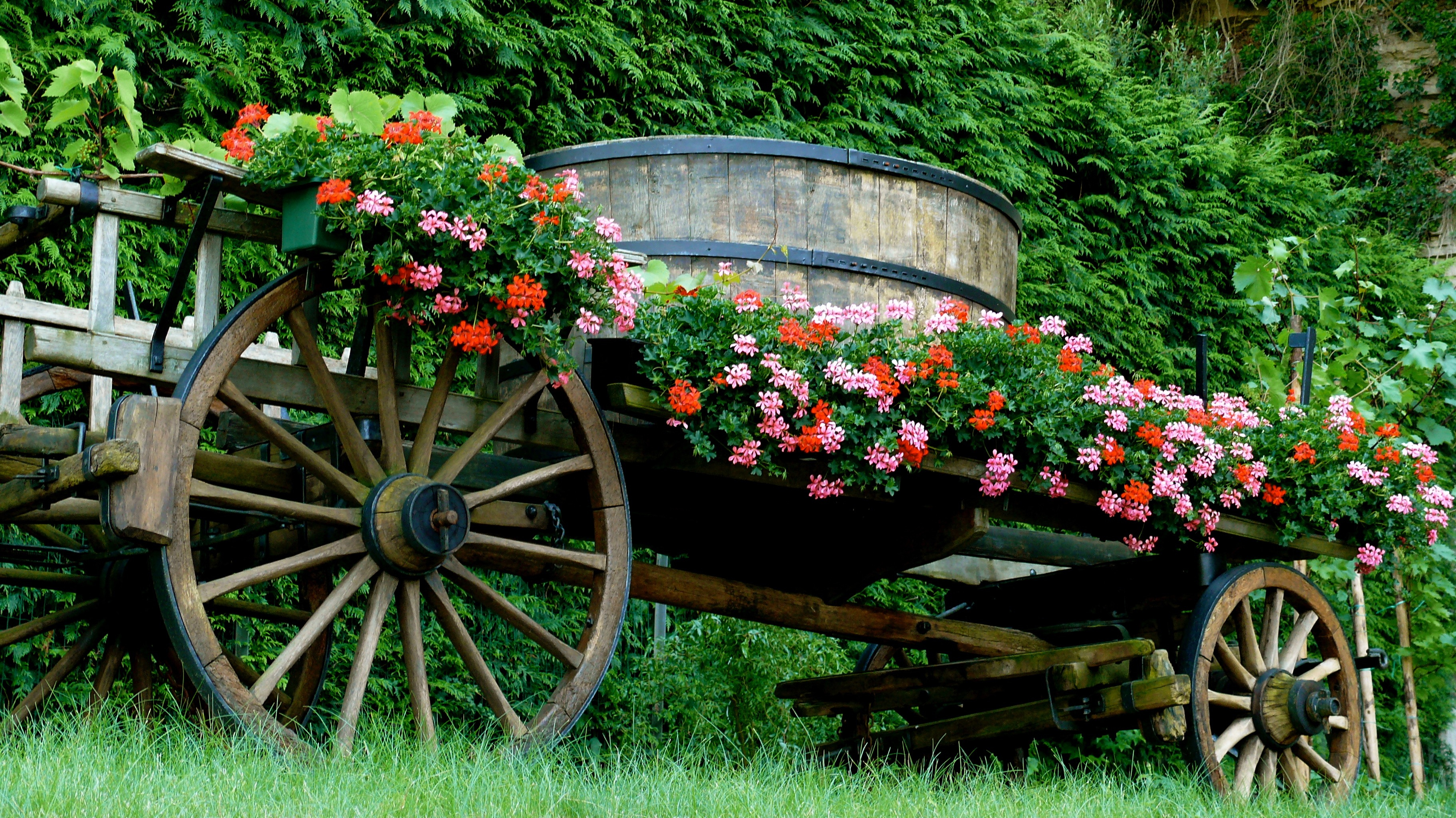 "Pauerbidden" , name of the vehicle used for transporting the grapes to the cellar.